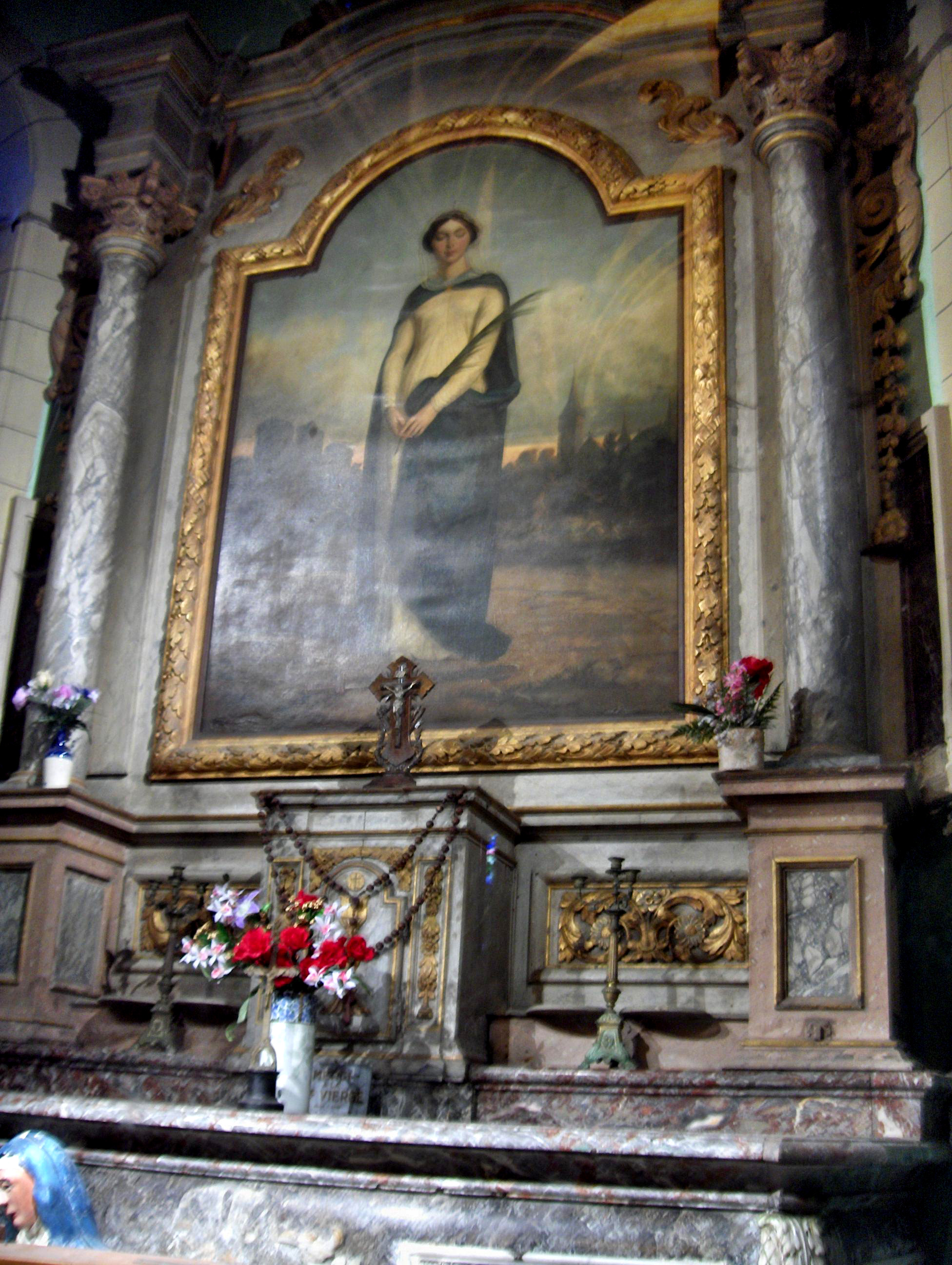 Lady chapel dedicated to Saint Maxellande in the apse of the abbatial church of Saint-Martin (17th century) Le Cateau Cambrésis, France